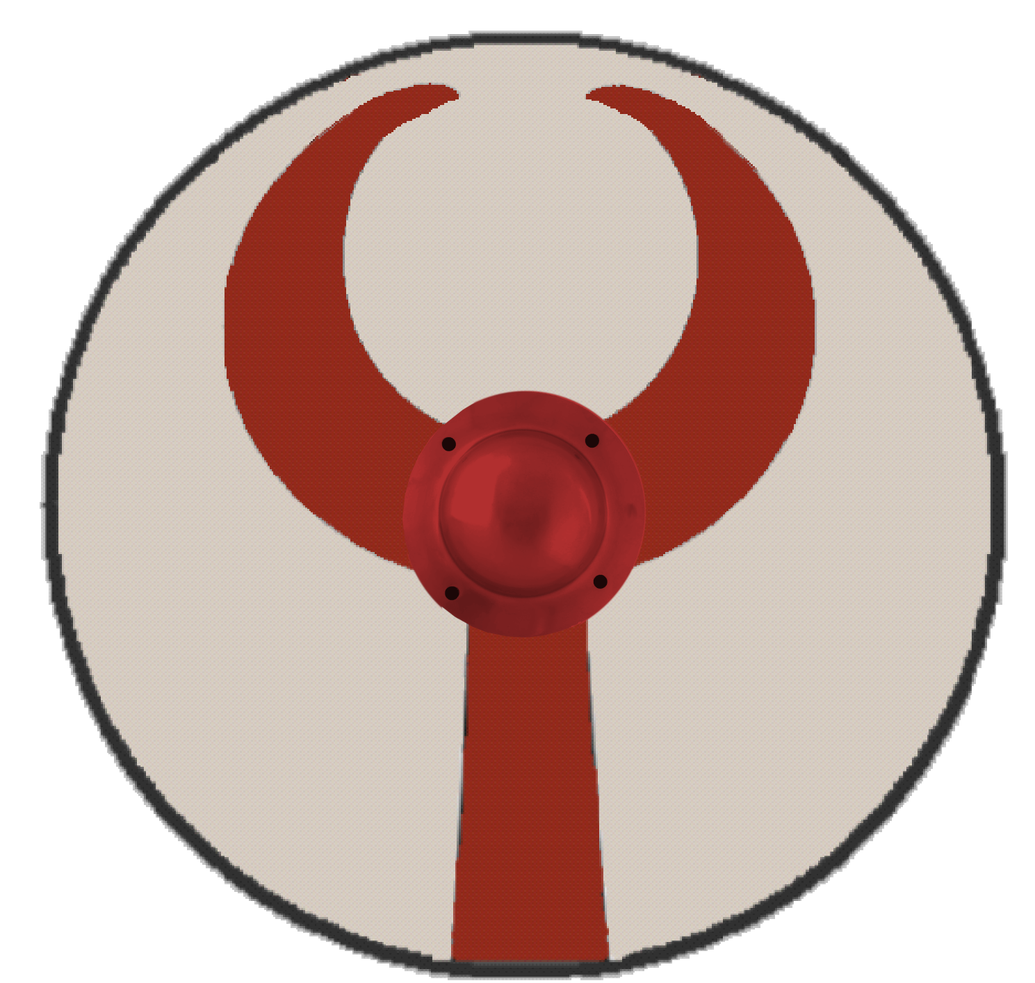 Shield pattern o.t. Cornuti seniores, a auxilia palatina unit listed in the Magister Peditum's infantry roster; it is also assigned to his Italian command.